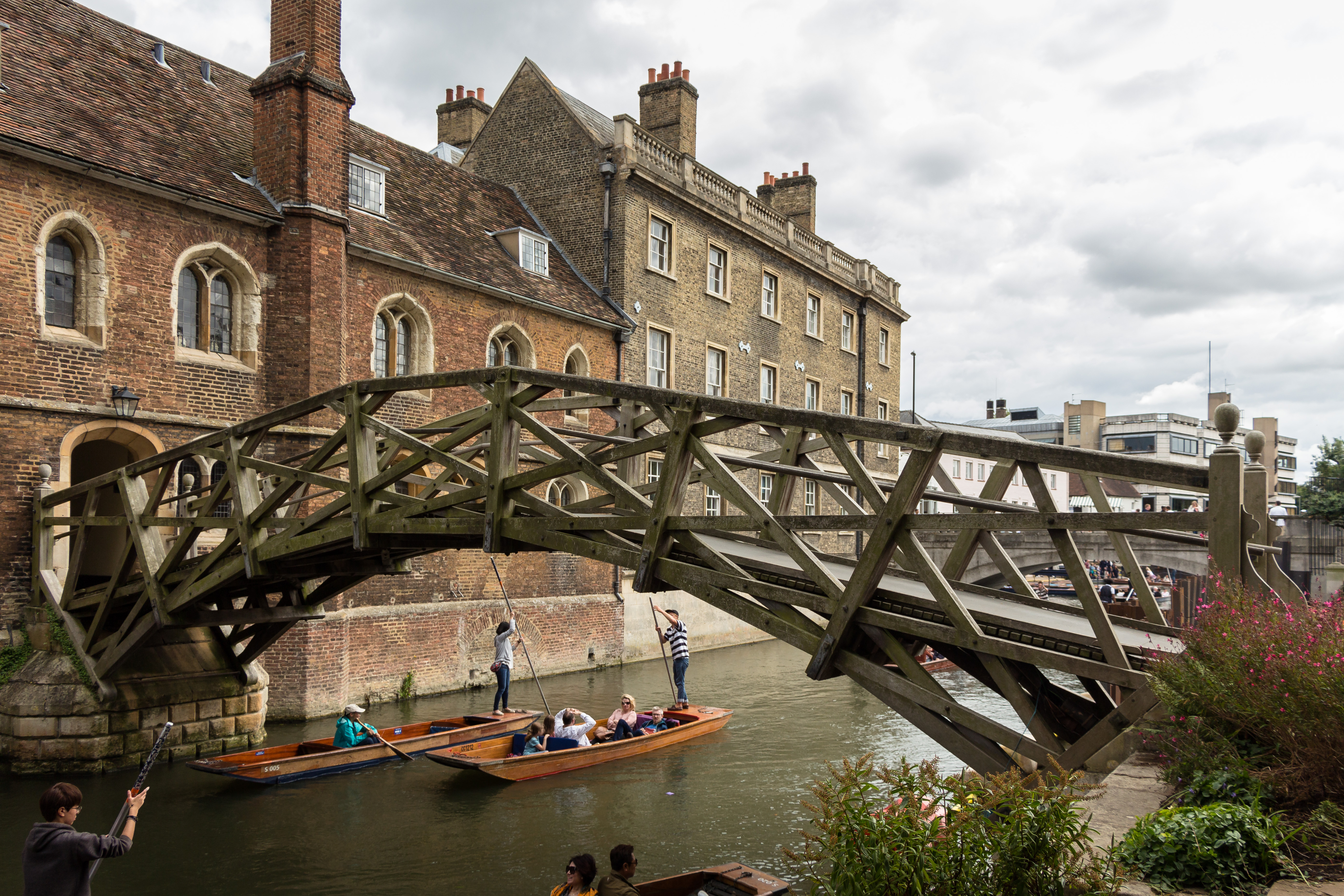 Wikidata has entry Q2980588 with data related to this item. Over the River Cam, the Wooden Bridge, known also as the Mathematical Bridge, joins the two sides of Queens' College